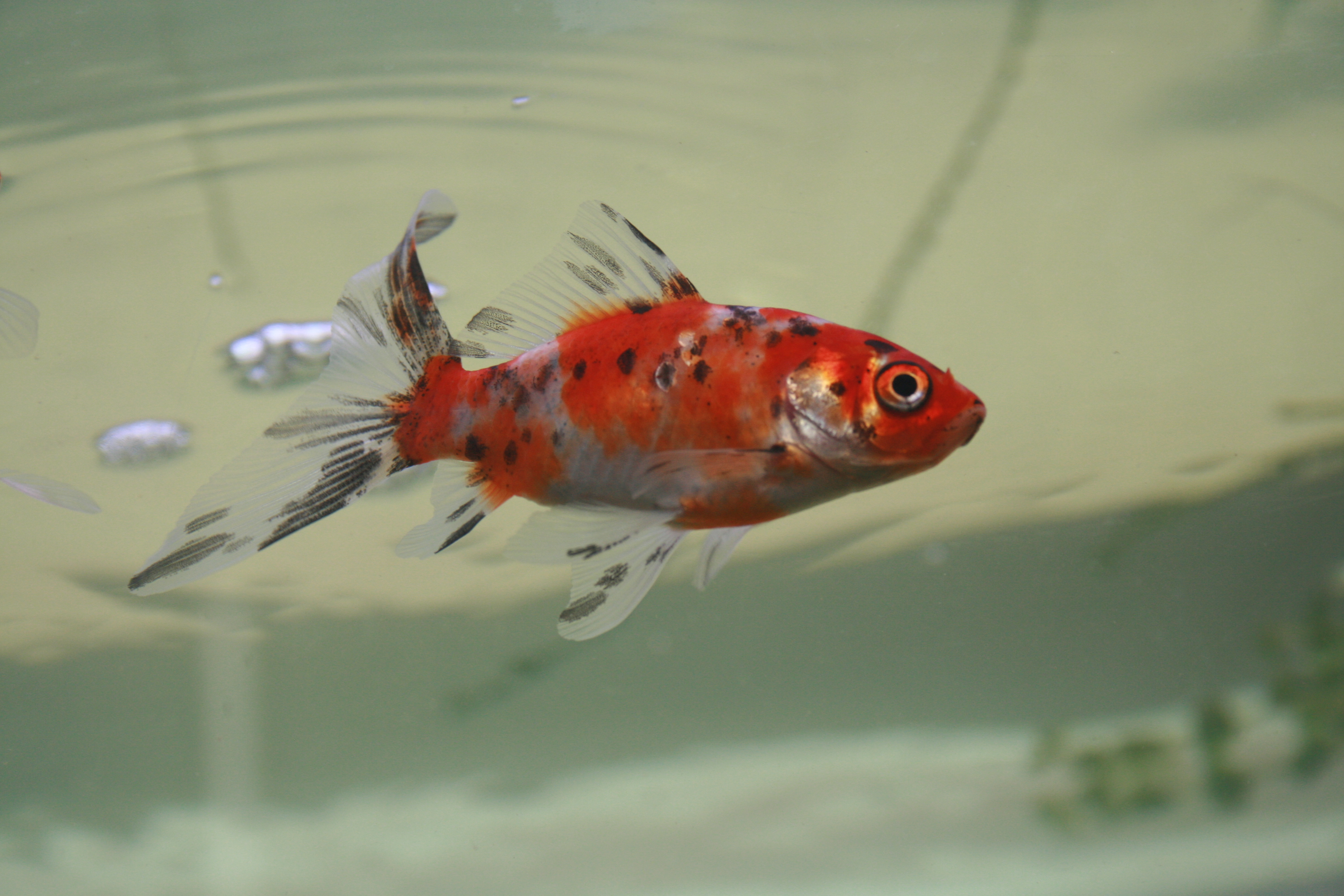 American Shubunkin.